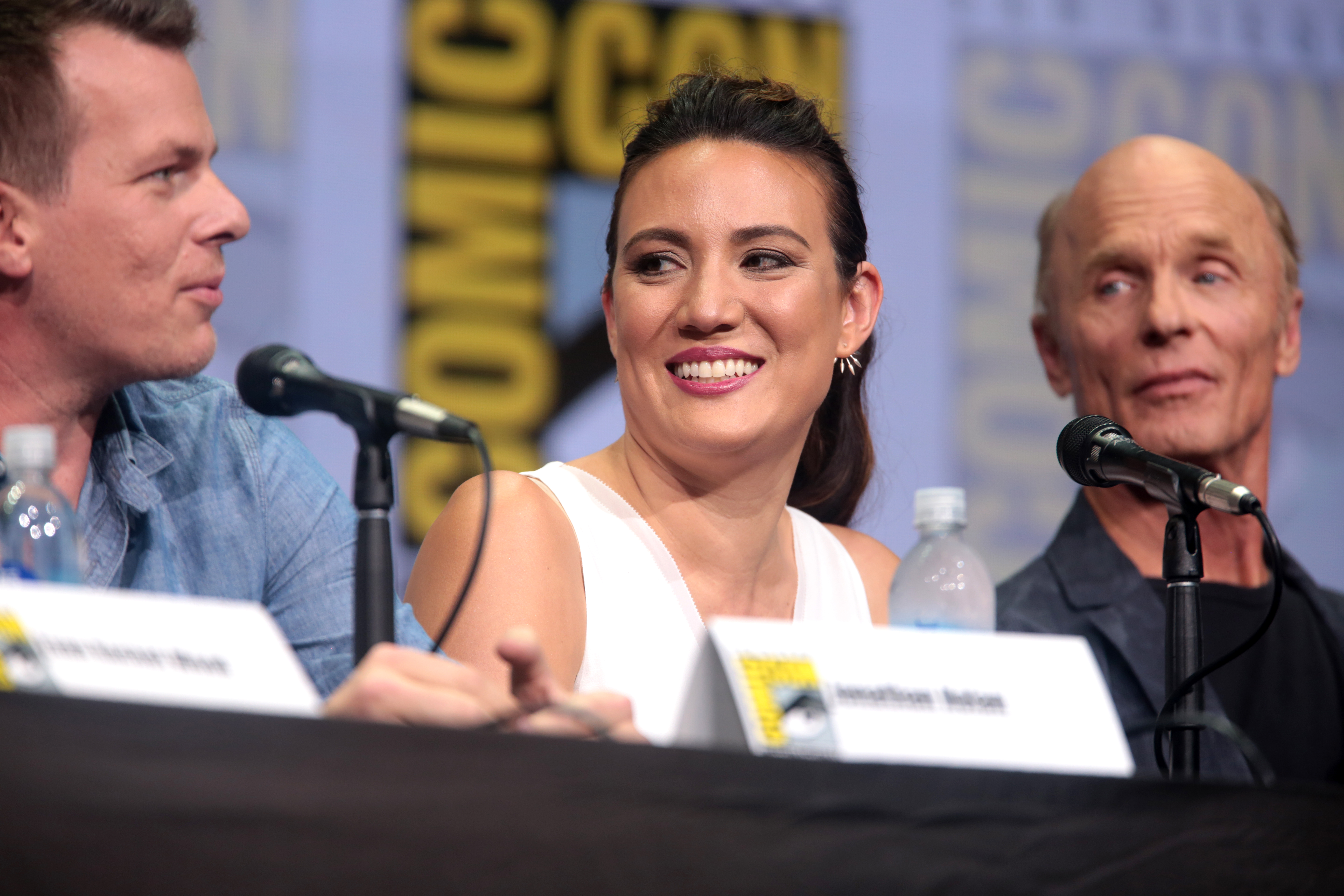 Lisa Joy and Ed Harris speaking at the 2017 San Diego Comic Con International, for "Westworld", at the San Diego Convention Center in San Diego, California.